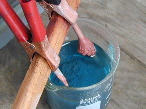 Synthesizing Copper Sulfate from Sulfuric acid and Copper